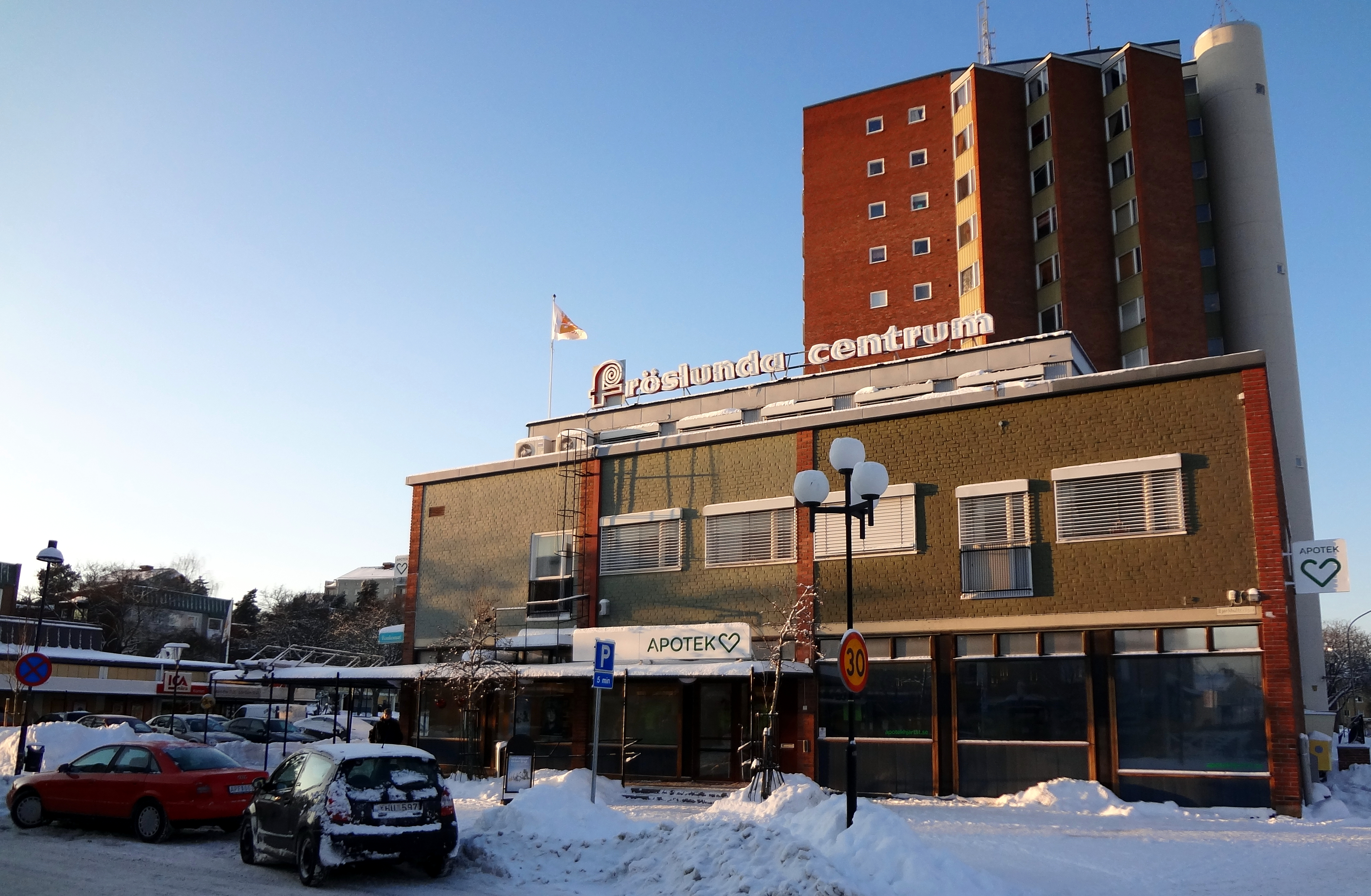 Fröslunda Center in Eskilstuna